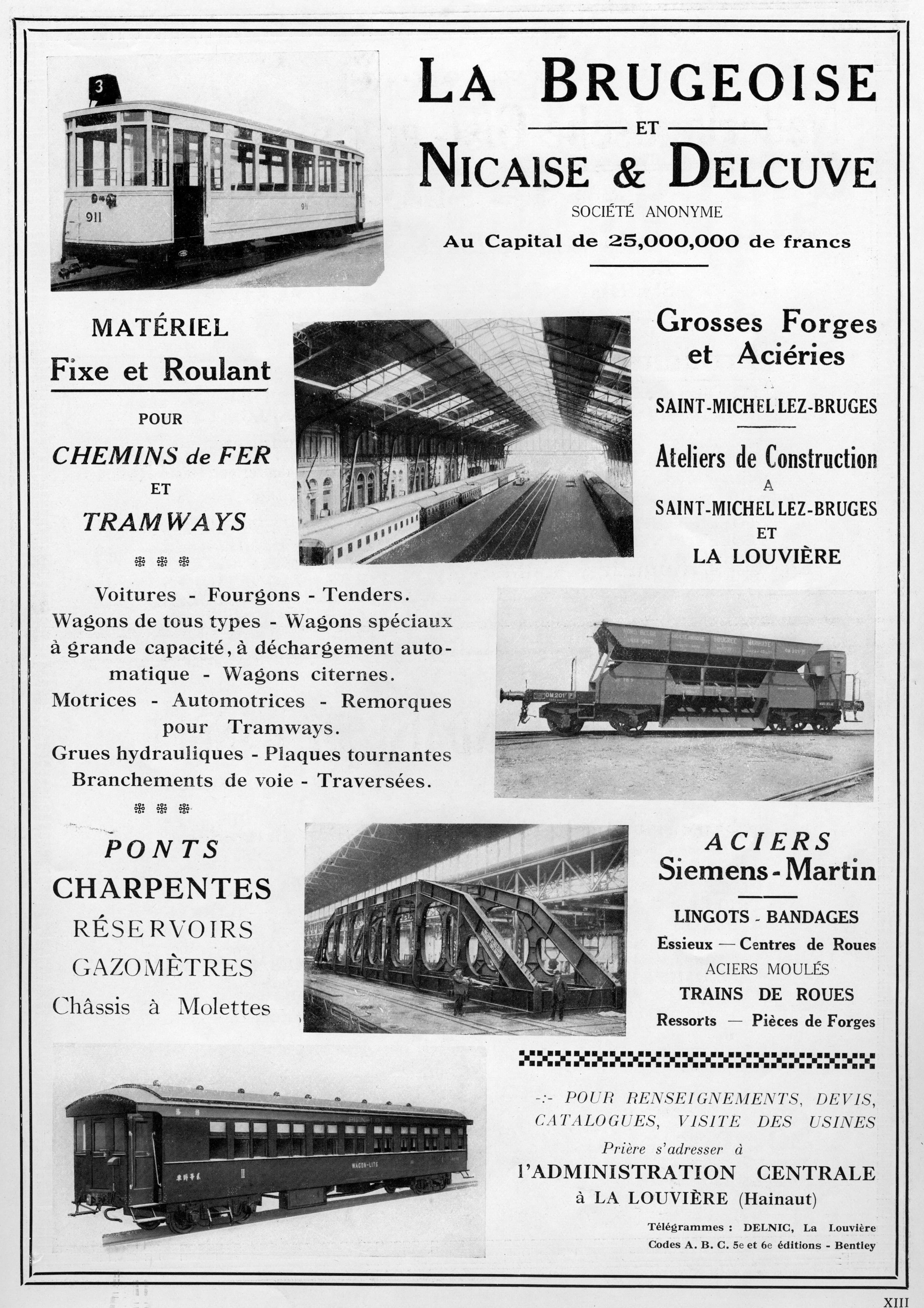 Brugeoise Nicaise & Delcuve company, Later became BN (Brugeoise et Nivelles)